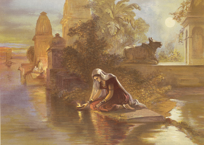 Photograph of chromolithograph titled, "Indian woman floating lamps on the Ganges," by William Simpson (1823-1899) Medium: Chromolithograph Date: 1867. Downloaded from this British Library Web Site by Fowler&fowler«Talk» 11:27, 3 May 2011 (UTC)